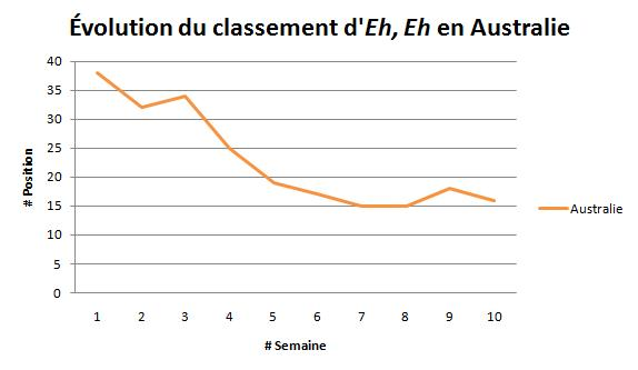 Evolution of Eh, Eh in australian charts.